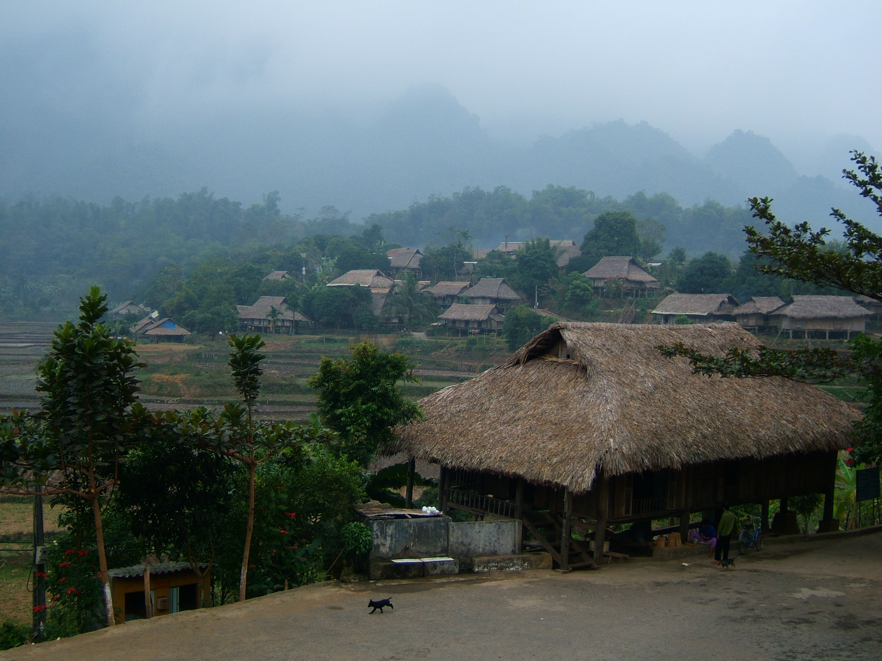 Stilt houses by Muong people, Vietnam